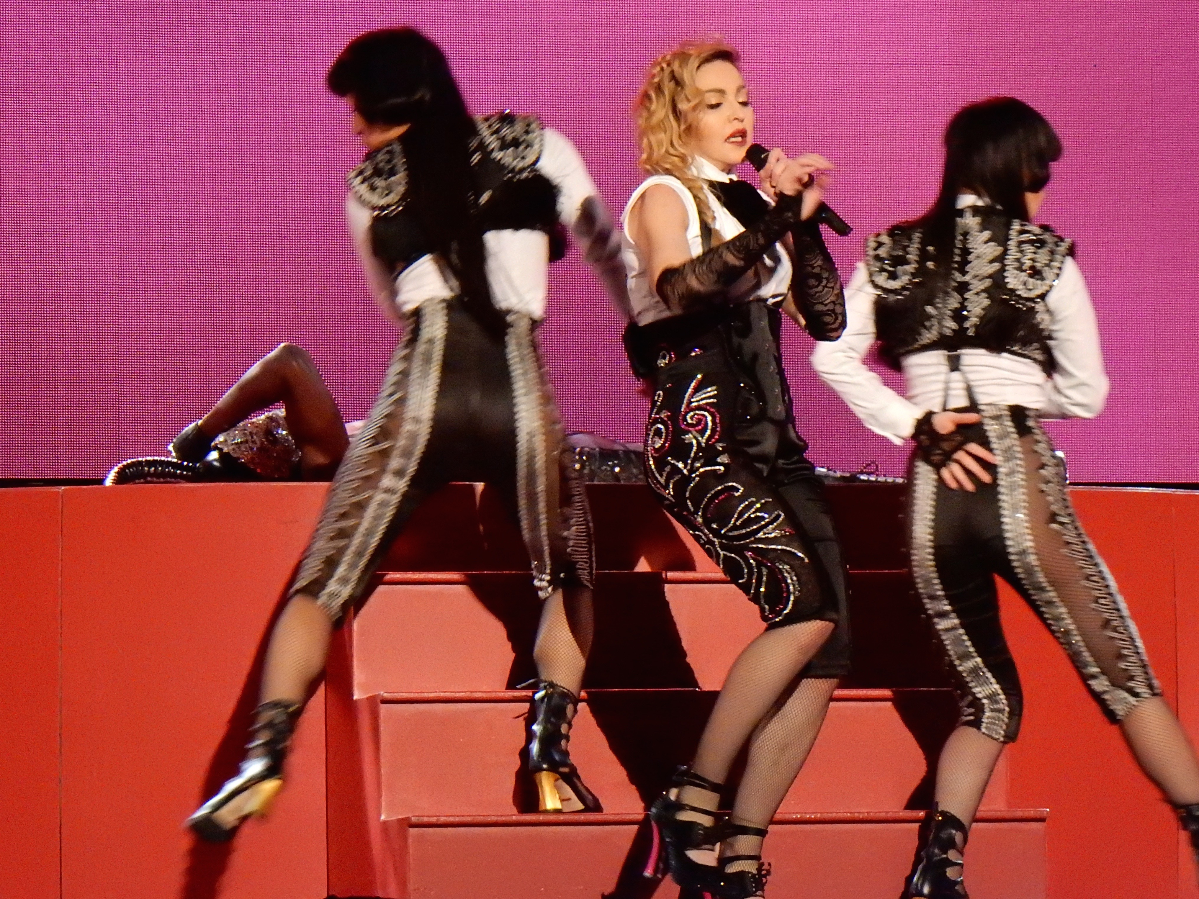 Madonna - Rebel Heart Tour 2015 - Paris 1